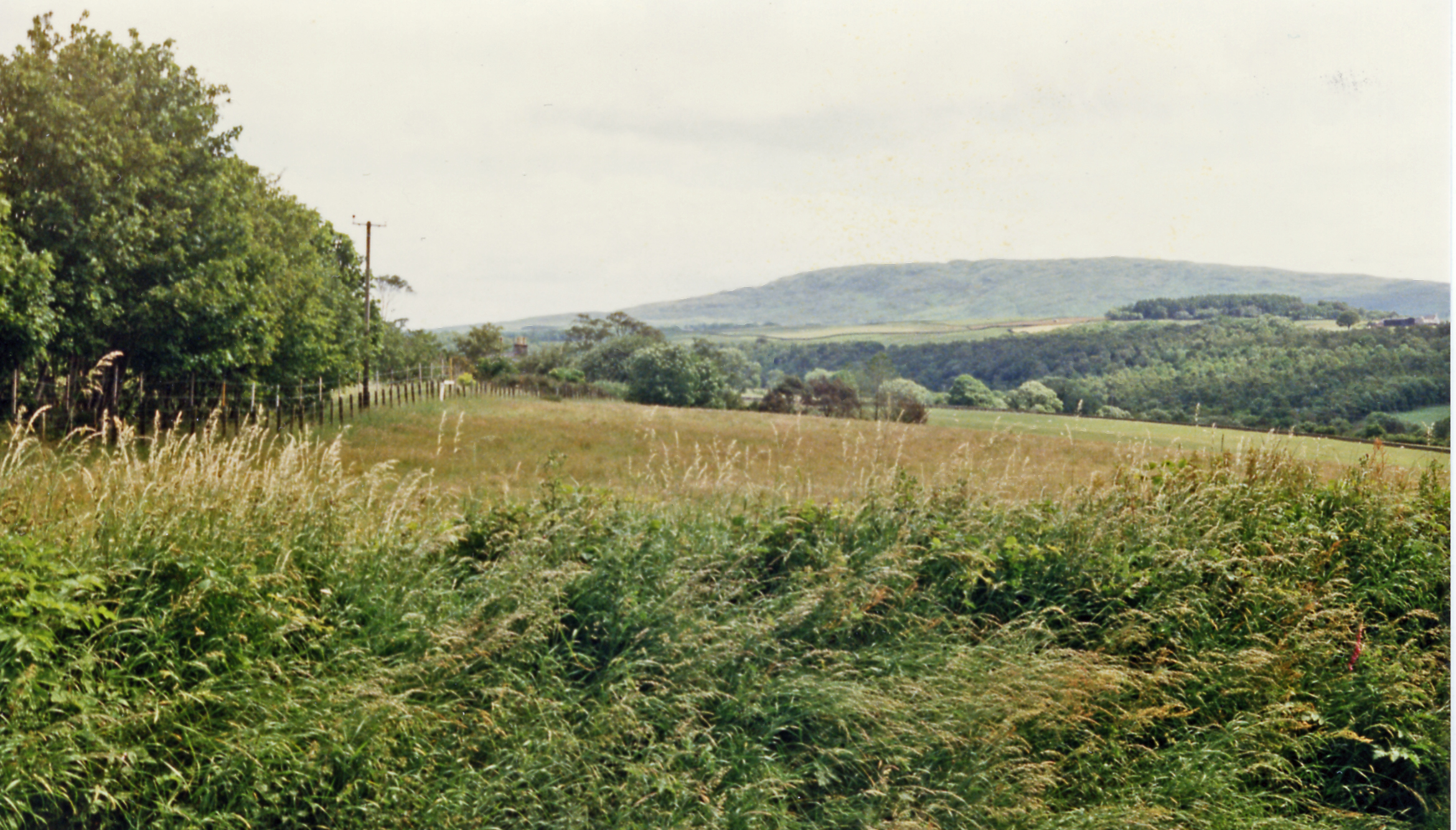 Depths of Kirkcudbrightshire near Creetown. Eastward up the valley of the Moneypool Brook, along the course of the former Dumfries - Stranraer main railway at Creetown station - all closed 14/6/65. The hill is probably Pibble Hill.